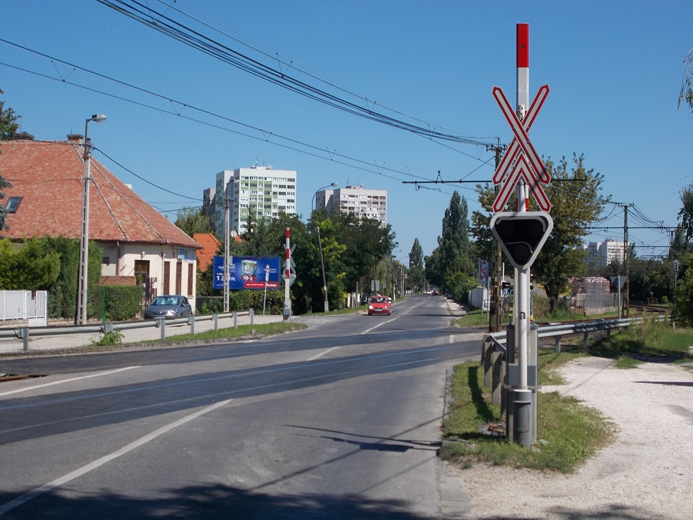 Level crosssing at Szentendrei út, Budapest District III.